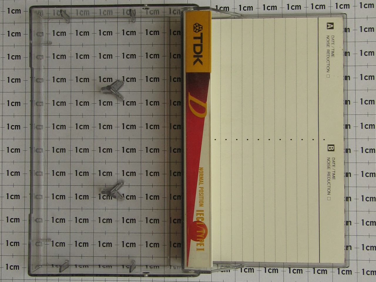 Compact Cassette protecting box - open